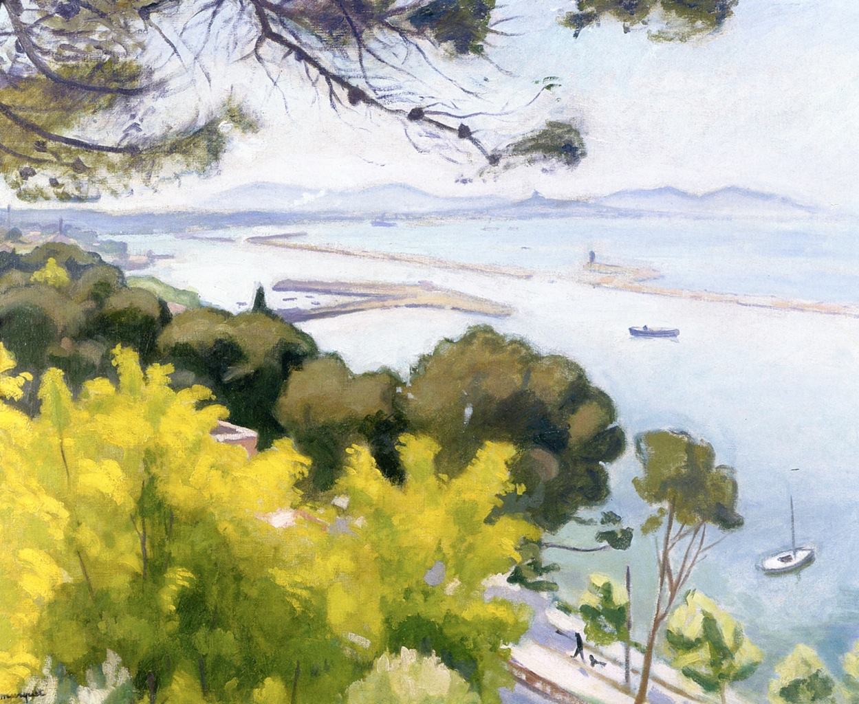 L'Estaque Albert Marquet (1918)